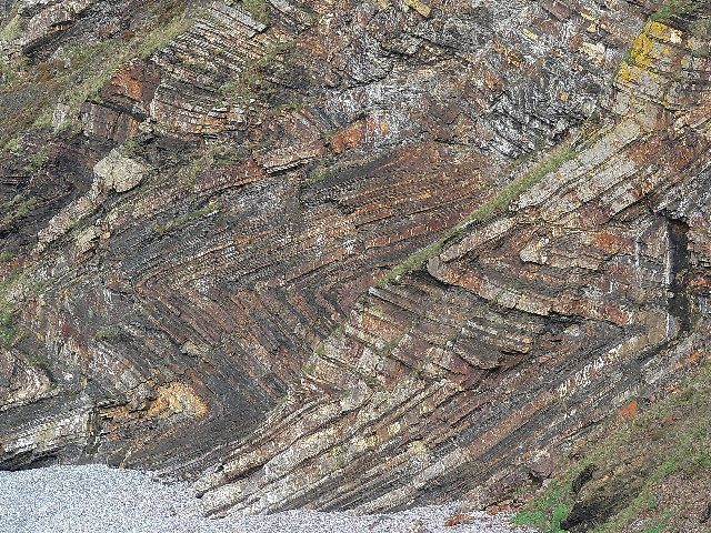 Carboniferous folds. Wanson mouth. Taken from the South West Coast Path.